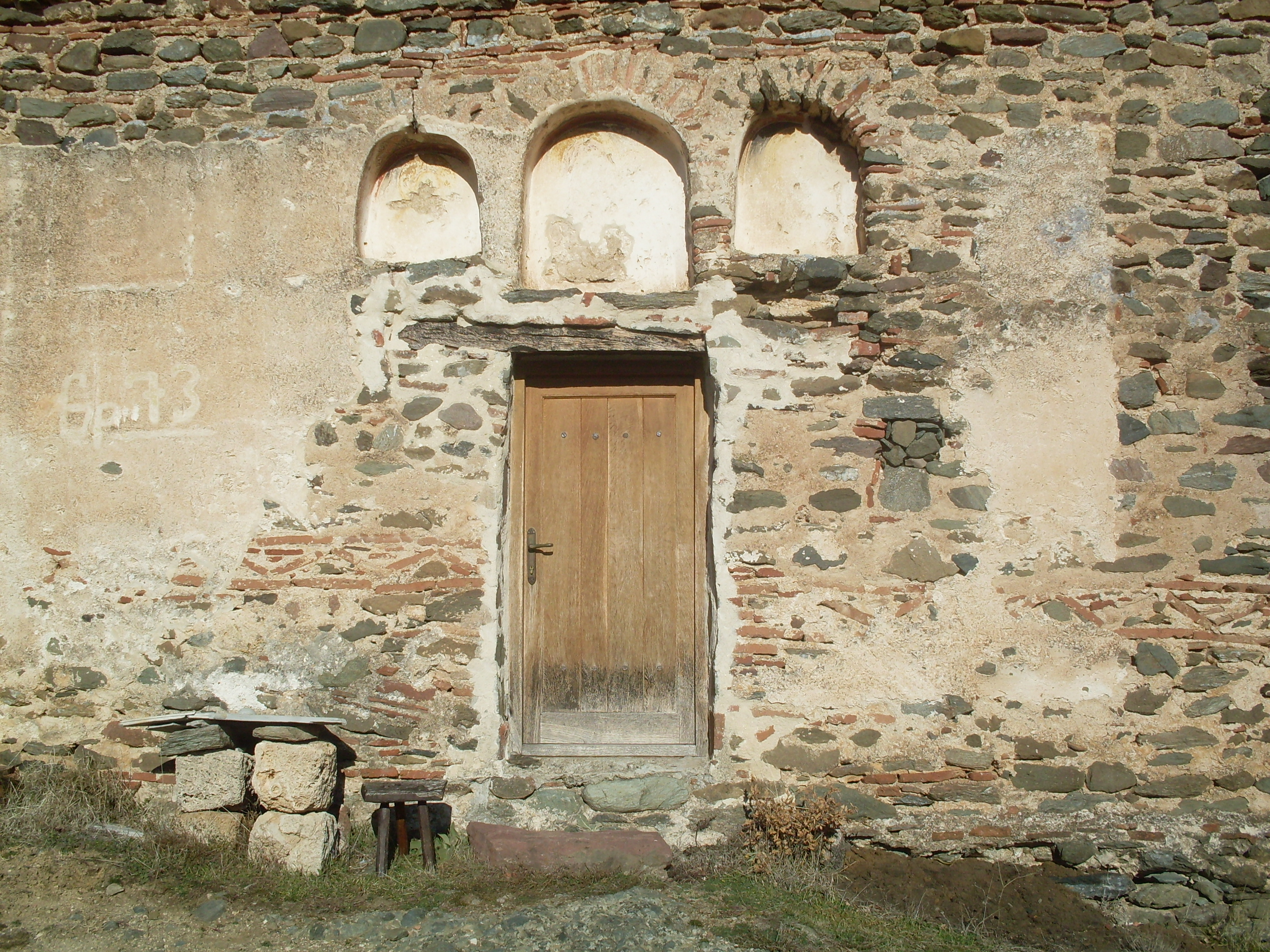 Church of the Most Holy Theotokos from the 14th century in Municipality of Trgoviste.